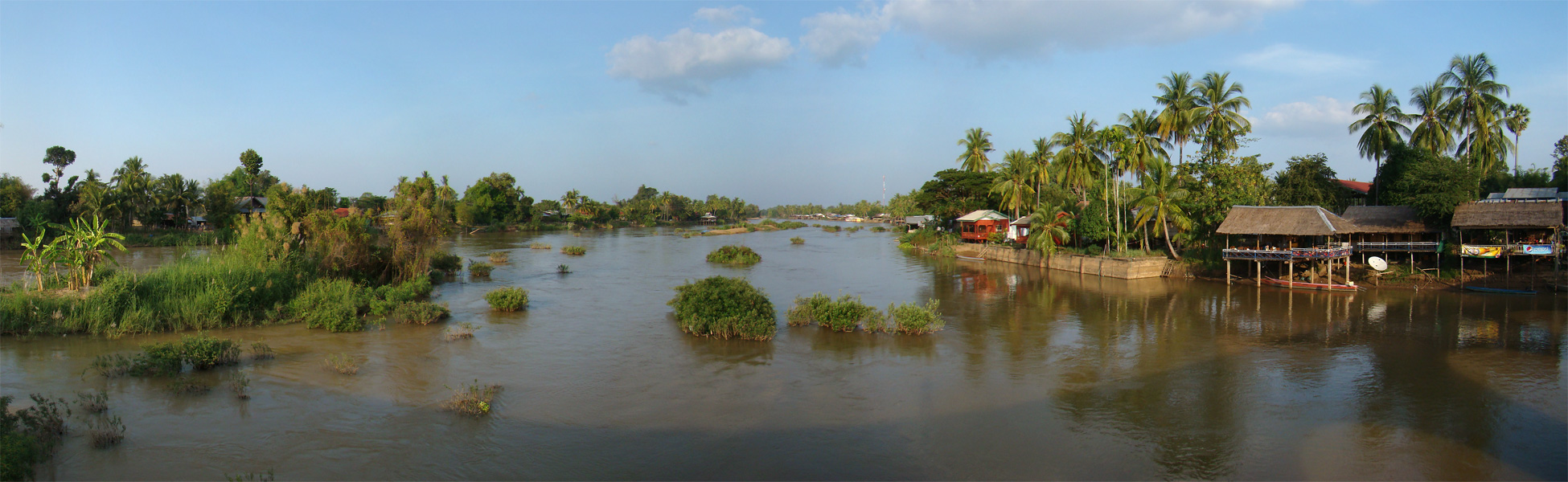 Panoramic view of the Mekong from the bridge linking Don Det on the left to Don Khone on the right, Si Phan Don, Champasak Province, Laos.